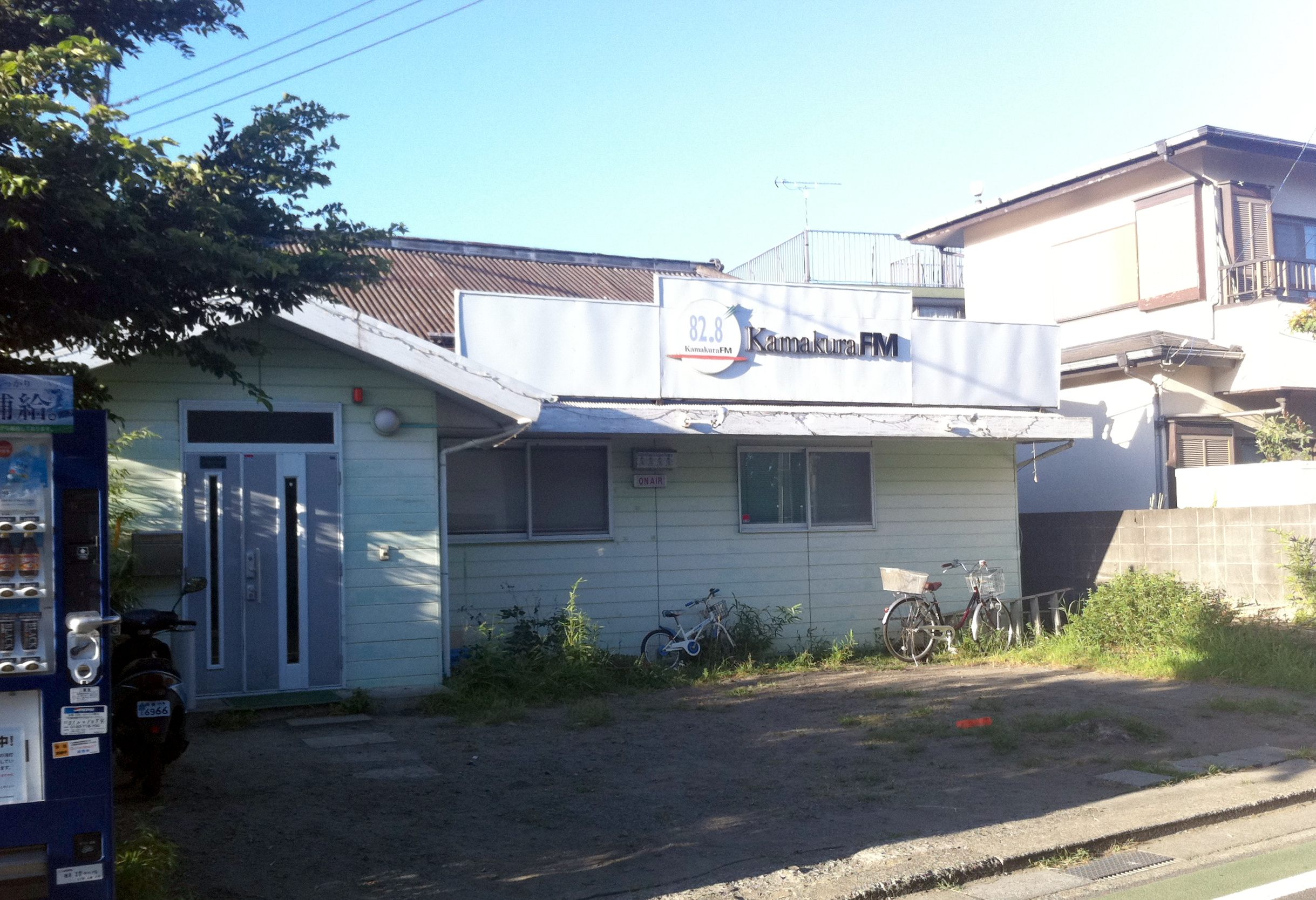 The old head office of Kamakura FM Broadcasting in Japan.